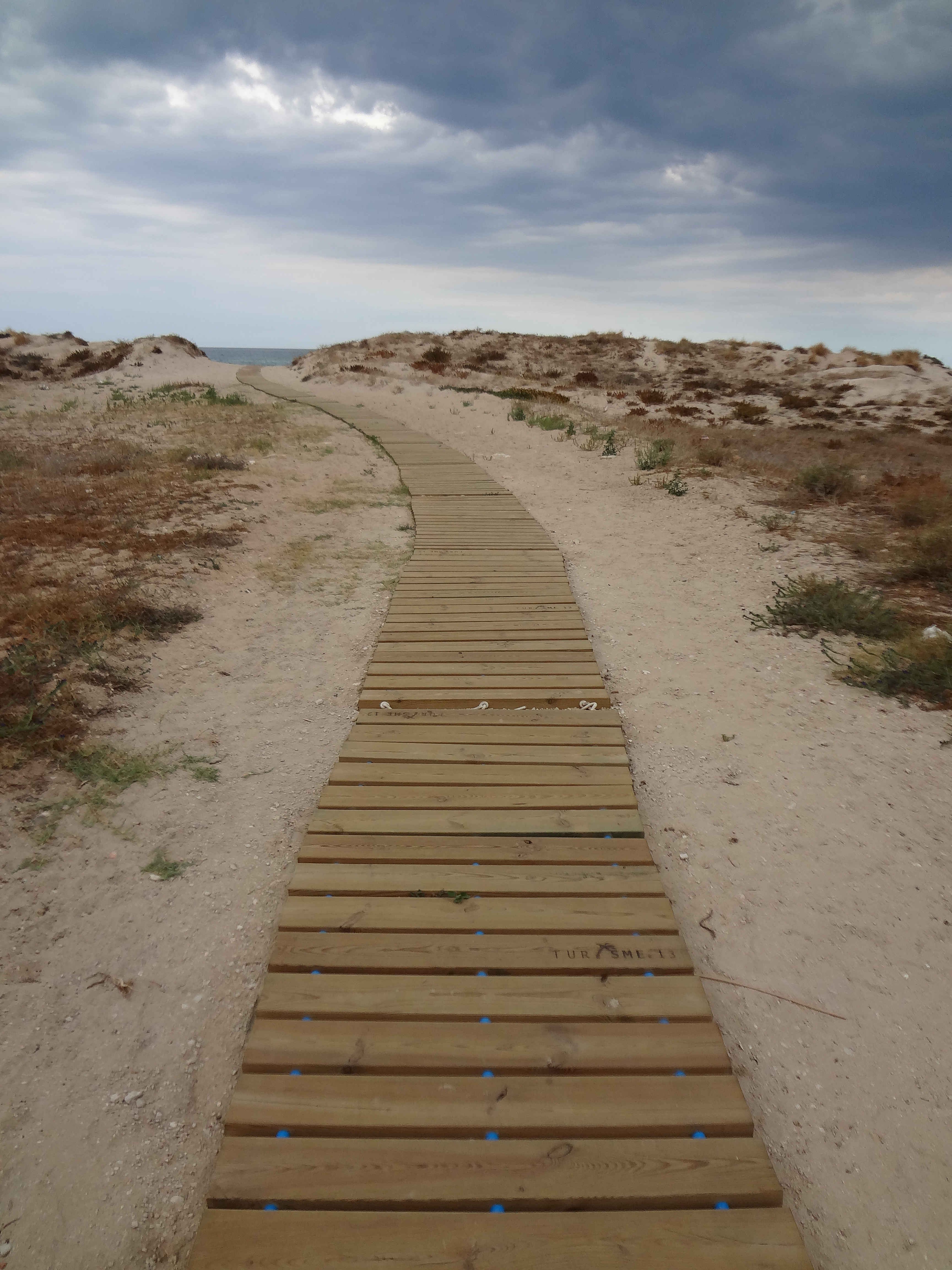 Walking path to the Mediterranean Sea in Oliva, Valencia Region of the Spain